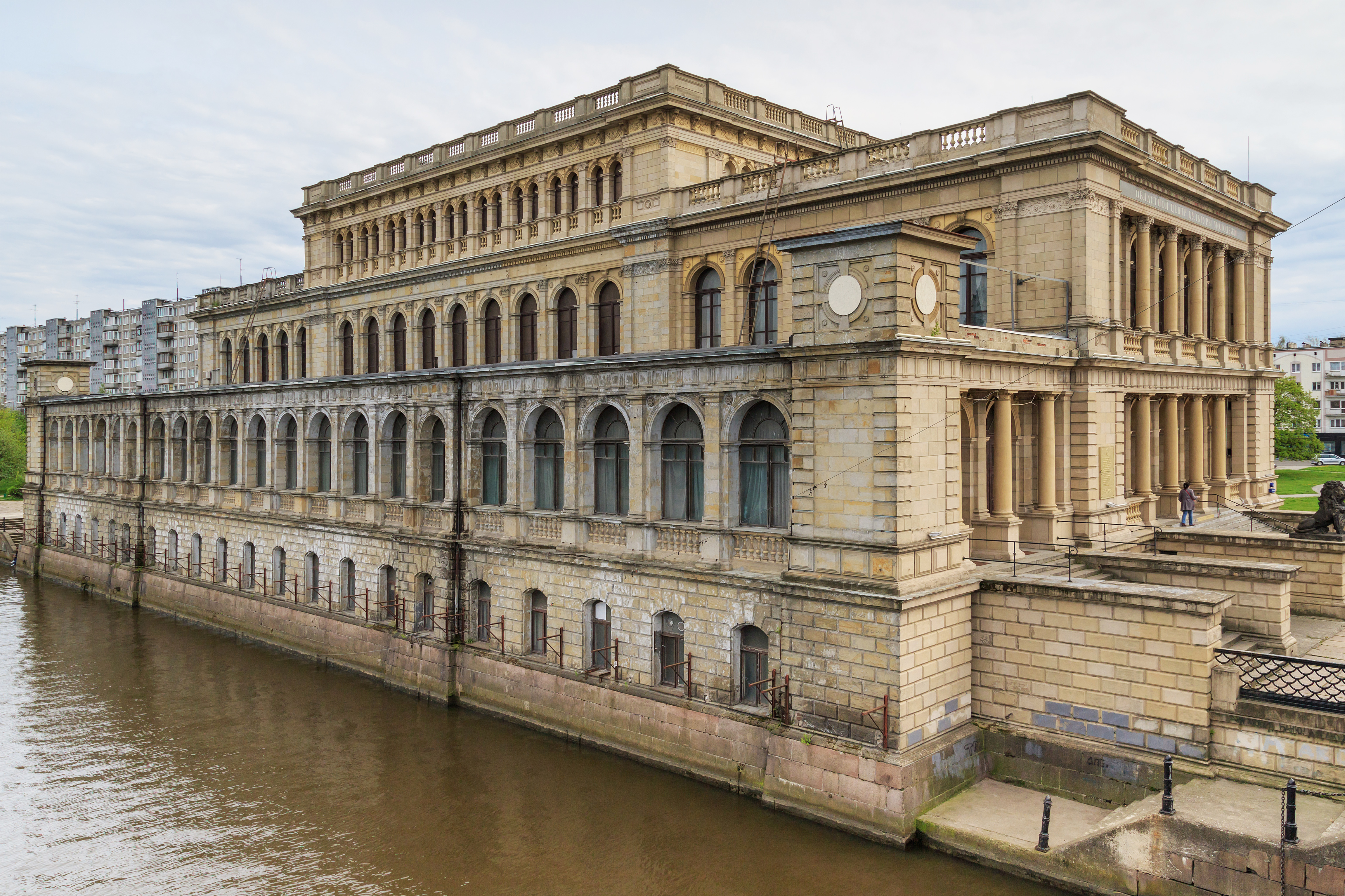 Stock Exchange in Kaliningrad formerly Königsberg, Kaliningrad Oblast (Russia)